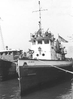 from...